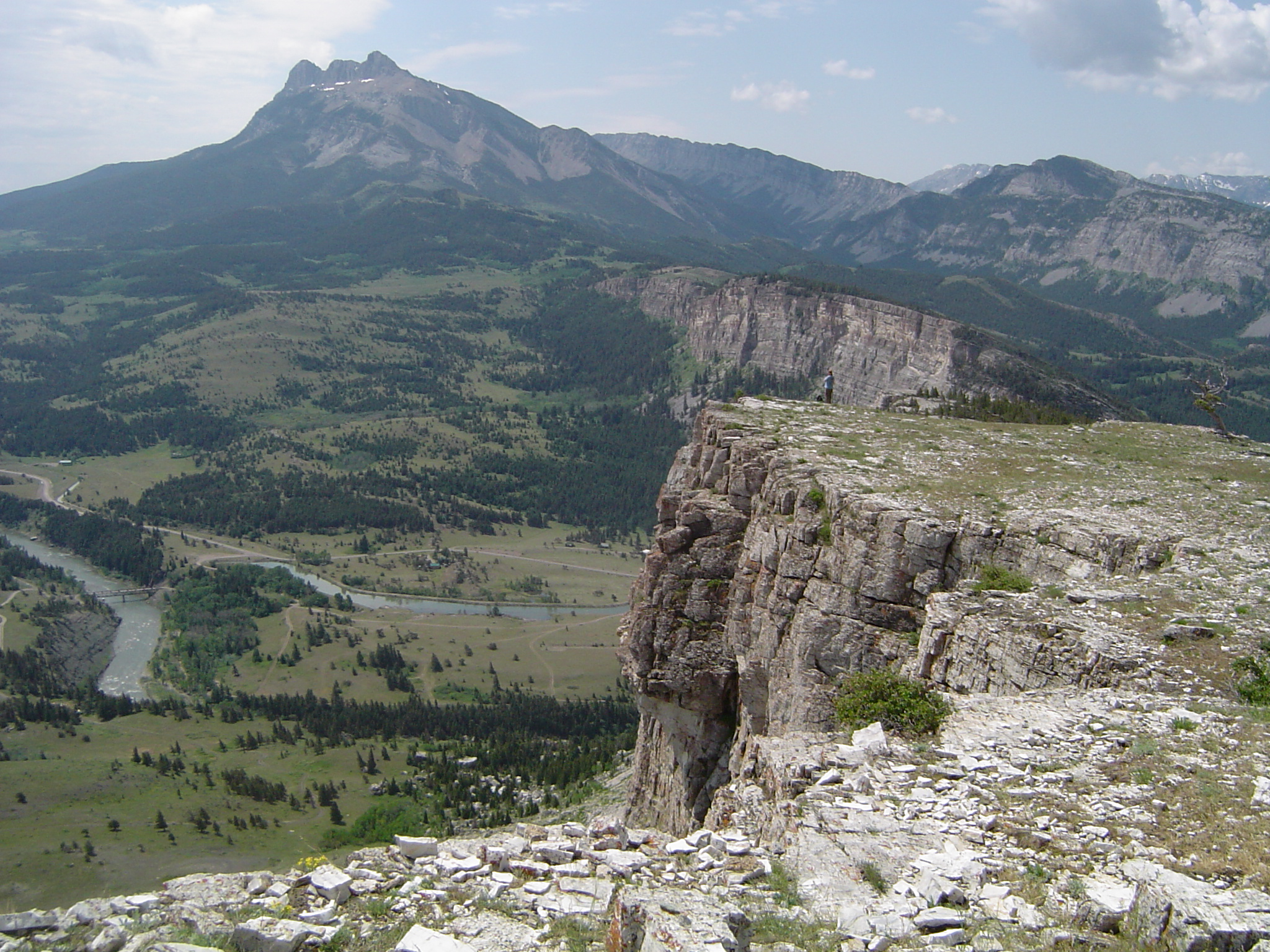 A view of the Madison Formation, a Mississippian limestone above Sun River canyon, Montana.